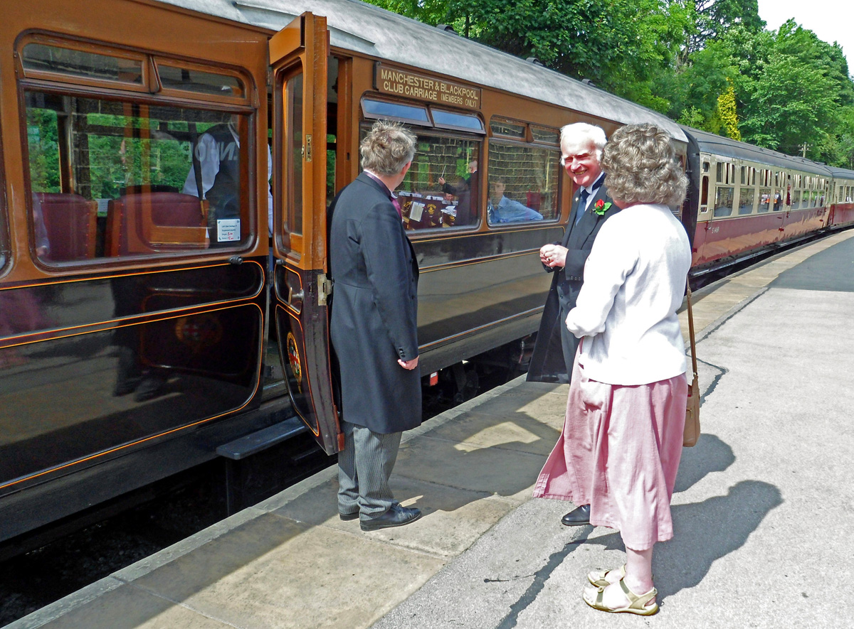 Lancashire & Yorkshire Railway Club Coach No. 47 or 1912 in use at Oxenhope Station